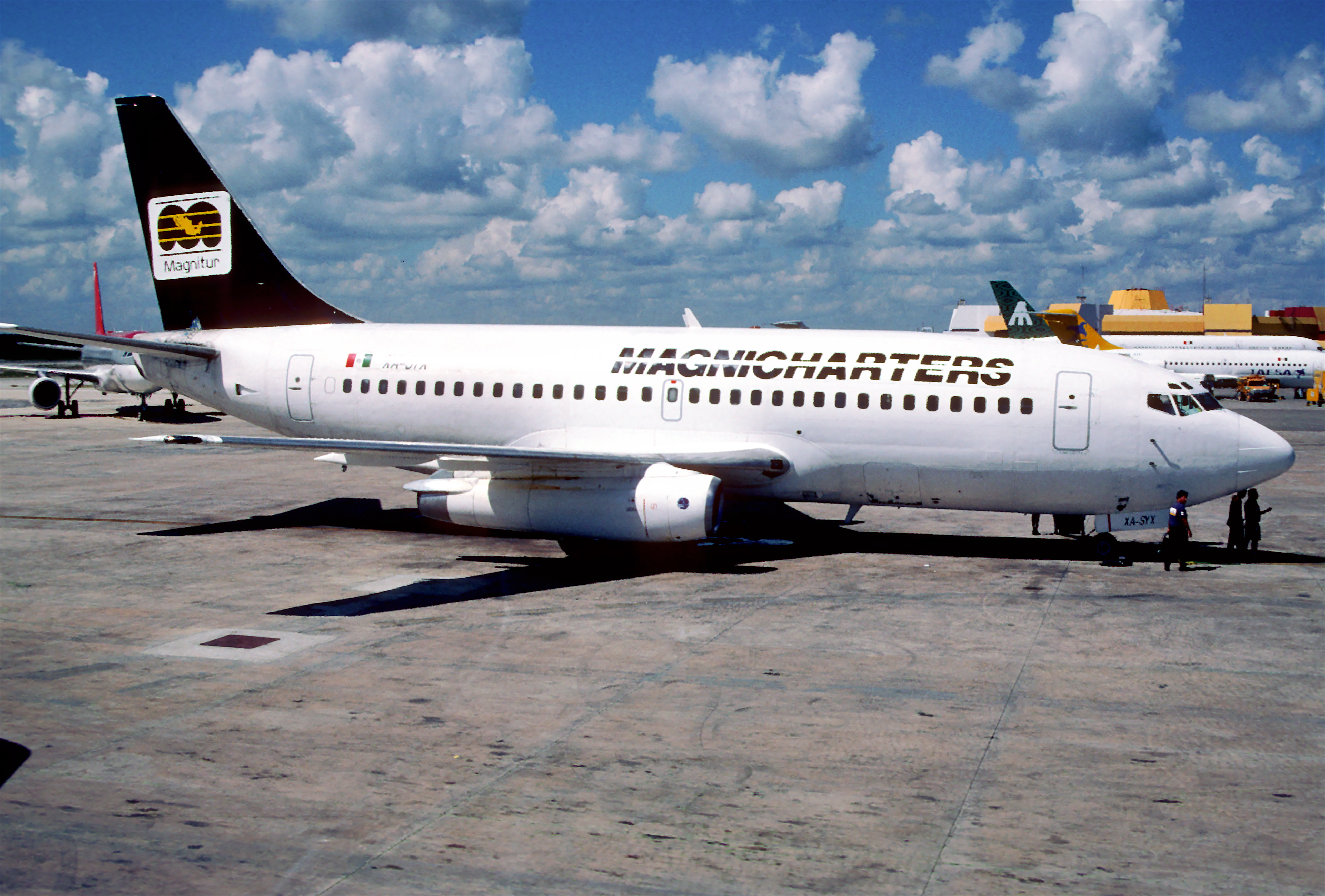 Magnicharters Boeing 737-222; XA-SYX at Cancun Airport